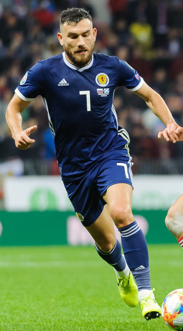 Scottish footballer Robert Snodgrass on 10 October 2019, during the 2020 UEFA European Championship qualifying match between Scotland and Russia in Moscow.